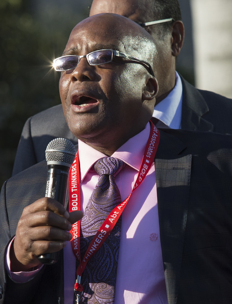 21st International AIDS Conference (AIDS 2016), Durban, South Africa.Photo shows TAC March. South Africa Health Minister Aaron Motsoaledi speaks during the TAC March in Durban, 18 July, 2016.Photo©International AIDS Society/Rogan Ward)